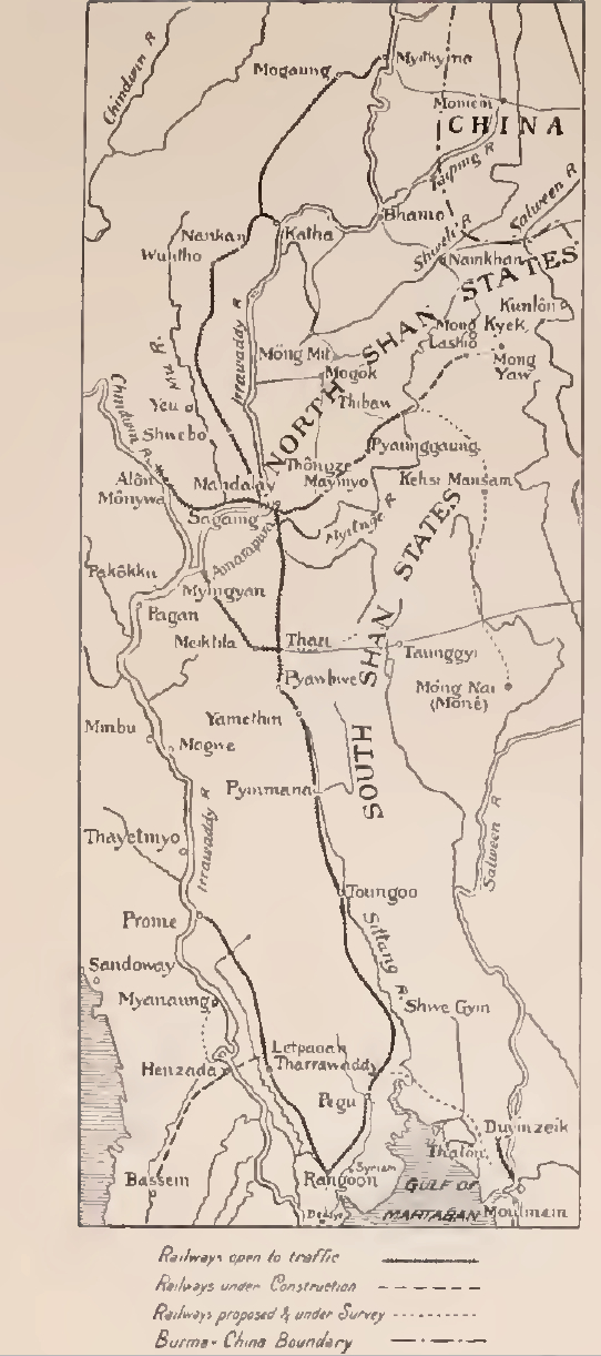 Railways in Burma in 1900